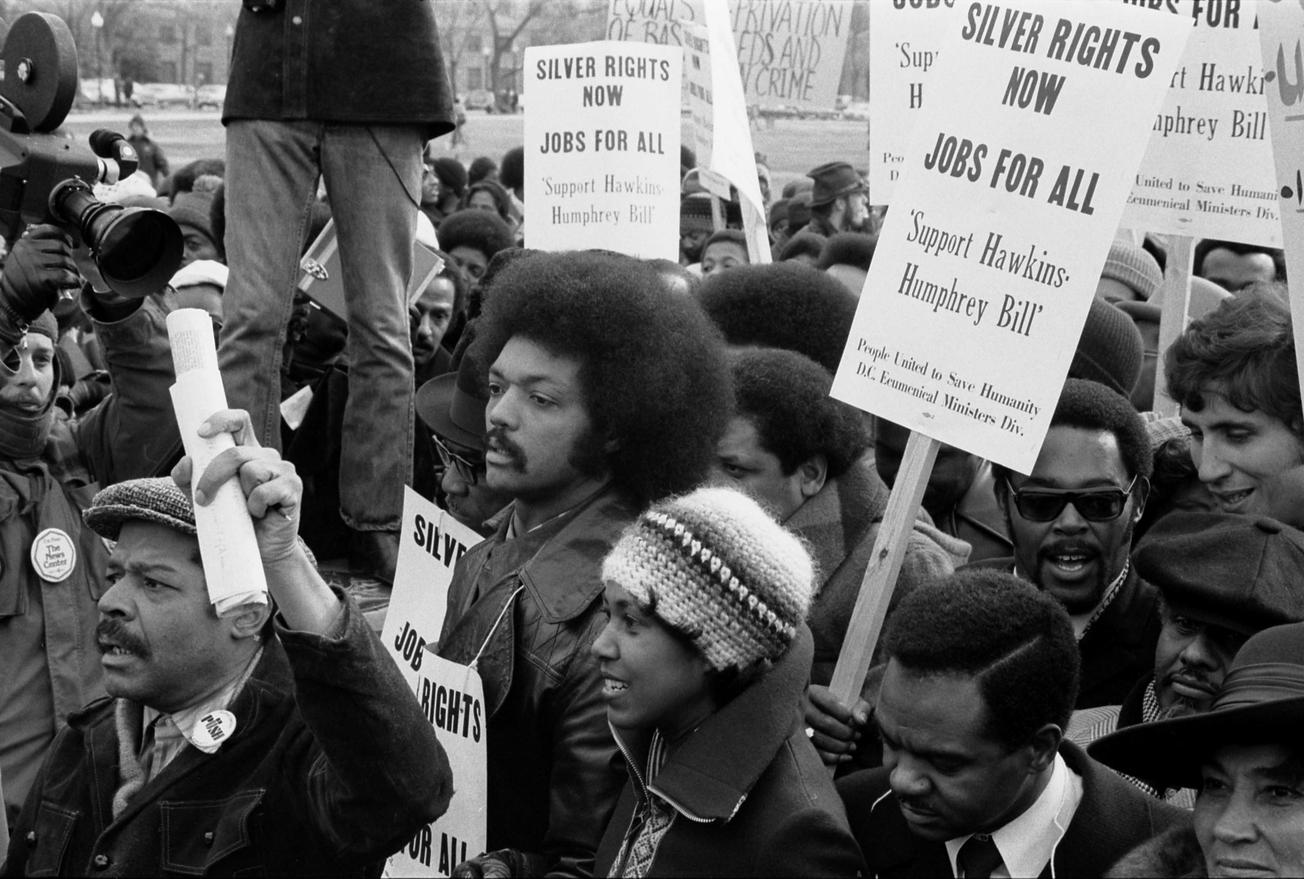 Jesse Jackson surrounded by marchers carrying signs advocating support for the Hawkins-Humphrey Bill for full employment, near the White House, Washington, D.C.